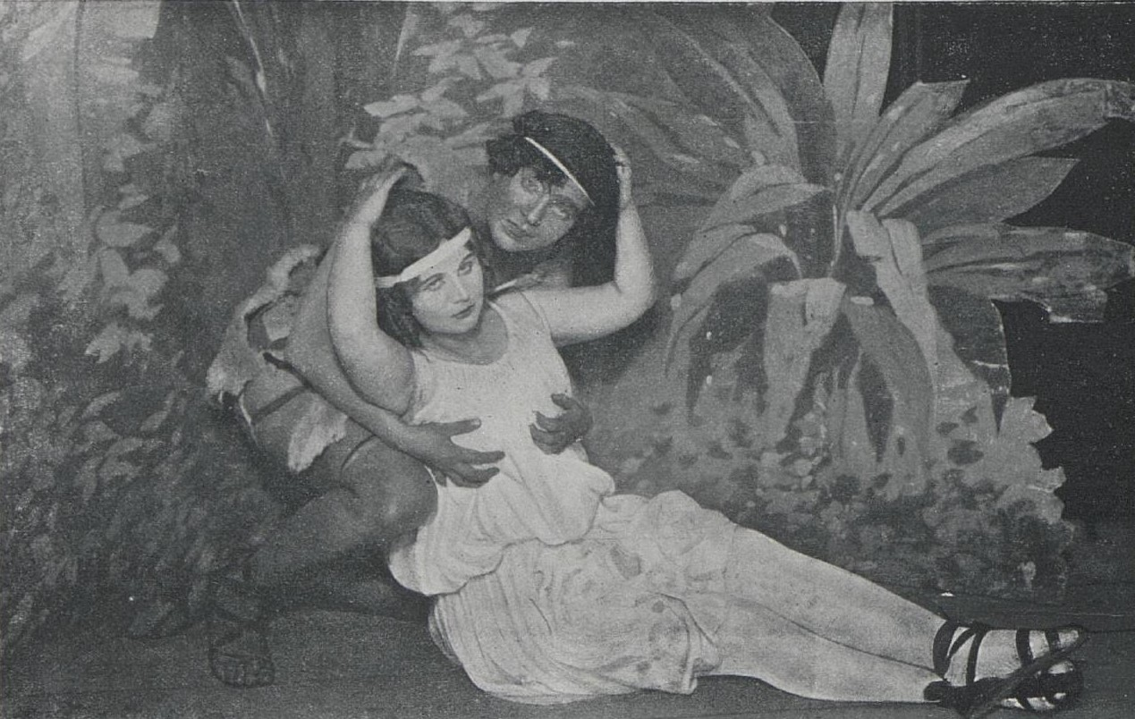 Anna Bernhardtová as Chloé and Božena Durasová as Daphnis in the 1914 Královské Vinohrady City Theatre (Městské divadlo Královských Vinohrad) production of Offenbach's Daphnis et Chloé